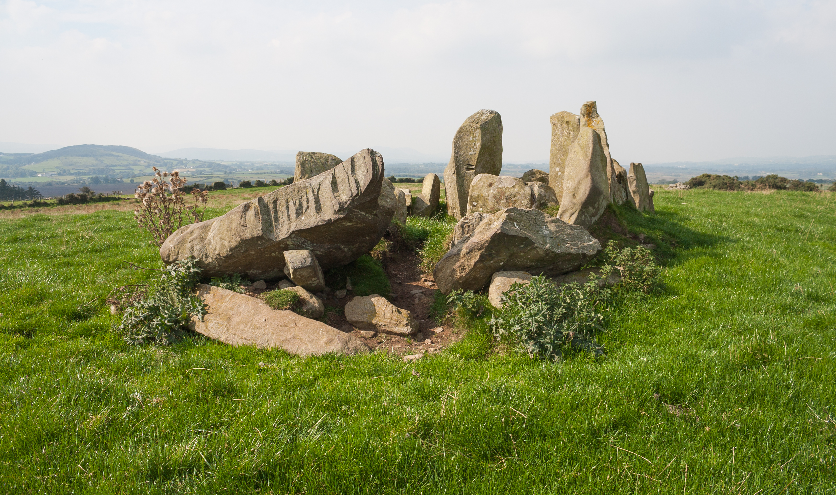 Eastern or entrance chamber of the Laraghirril court tomb, located close to Bocan, south of Culdaff on Inishowen.